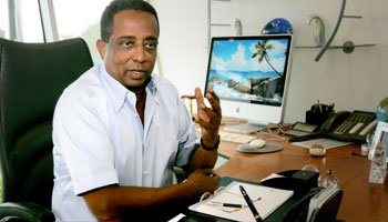 CEO of DAL Group